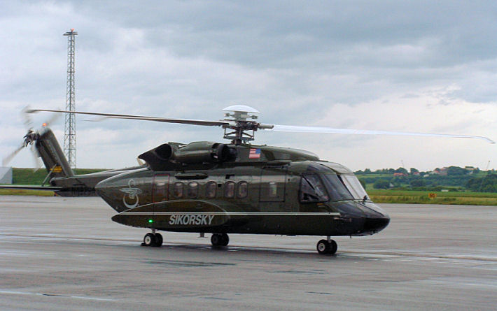 Sikorsky S92 helicopter at Stavanger Airport, Sola, Norway